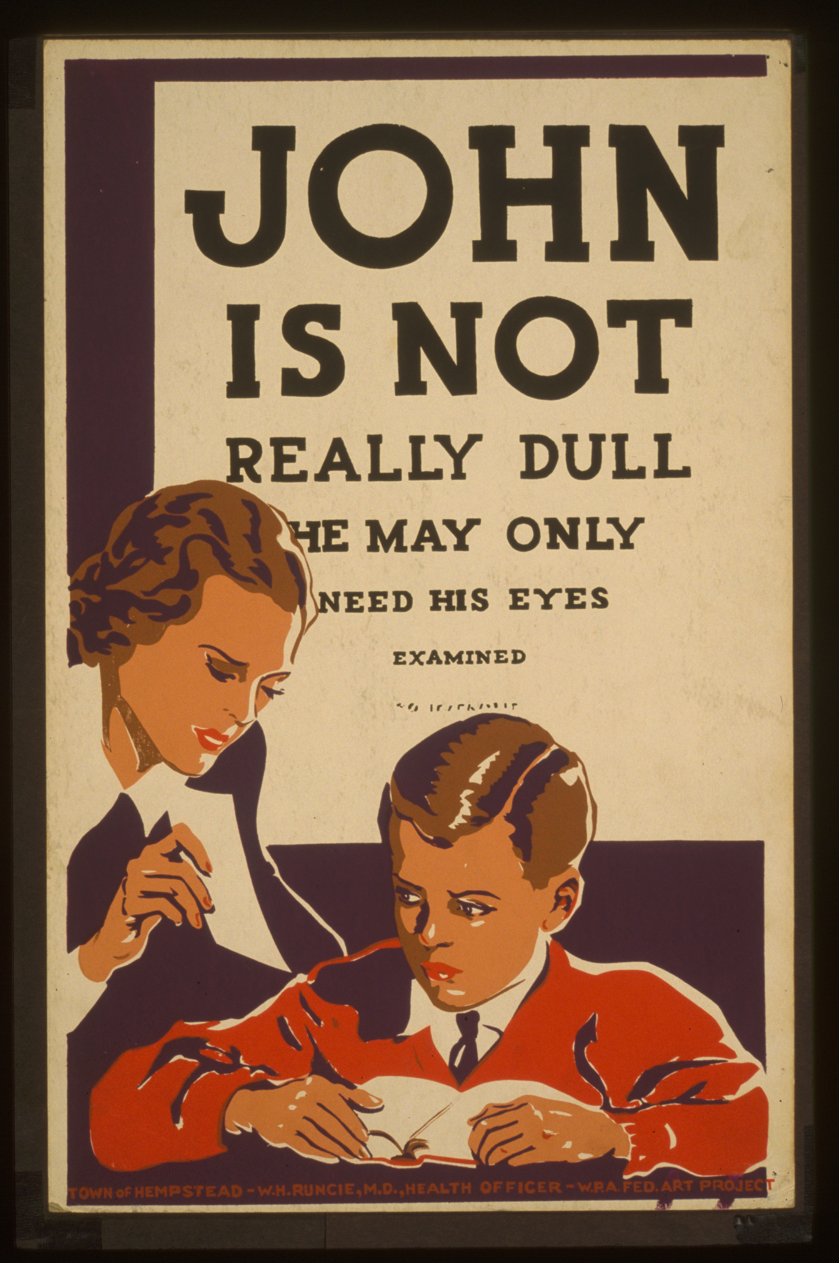 W.P.A. Federal Art Project, [1936 or 1937]. (Date stamped on verso: Dec 1 1937.) Poster recommending eye examinations for children having difficulty learning, showing a woman in front of a boy reading a book. Behind the boy is an eye chart with readable text saying: "JOHN IS NOT REALLY DULL HE MAY ONLY NEED HIS EYES EXAMINED." Sponsored by Town of Hempstead, New York, W.H. Runcie, M.D., Health Officer. Work Projects Administration Poster Collection (Library of Congress).